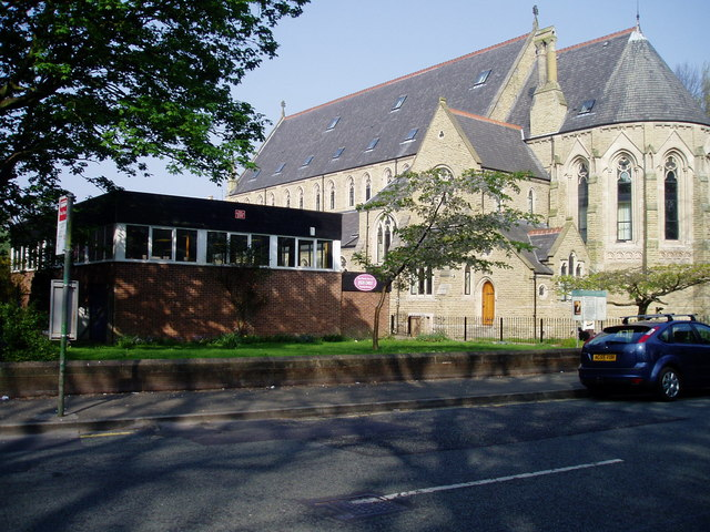 The present (left) and former (right) parish churches of St Edmund, Alexandra Road South, Manchester, seen from the southeast. The former parish church has been converted into apartments, and the present church is the former church hall.